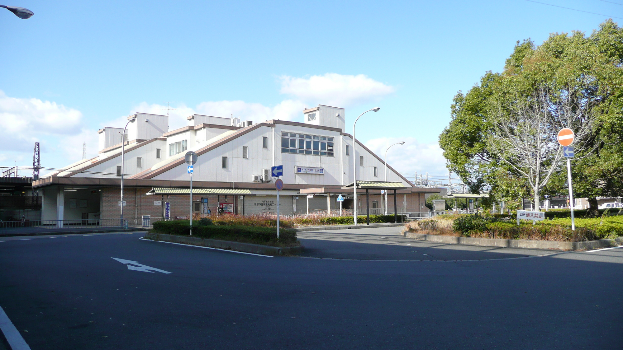 Kinki Nippon Railway,Kyoto Line and Kyoto Municipal Subway,Karasuma Line,Takeda Station north gate east entrance. / 近鉄京都線・京都市営地下鉄烏丸線竹田駅北改札東口